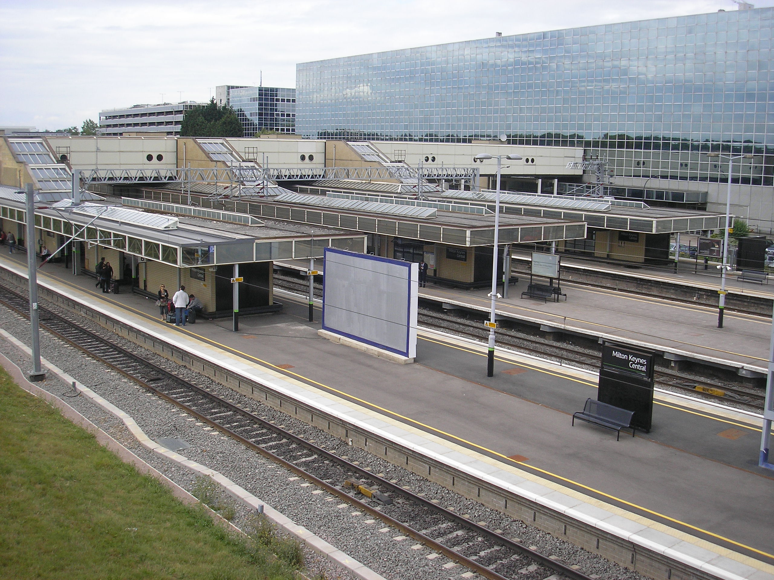 A view to the north of Milton Keynes Central railway station.